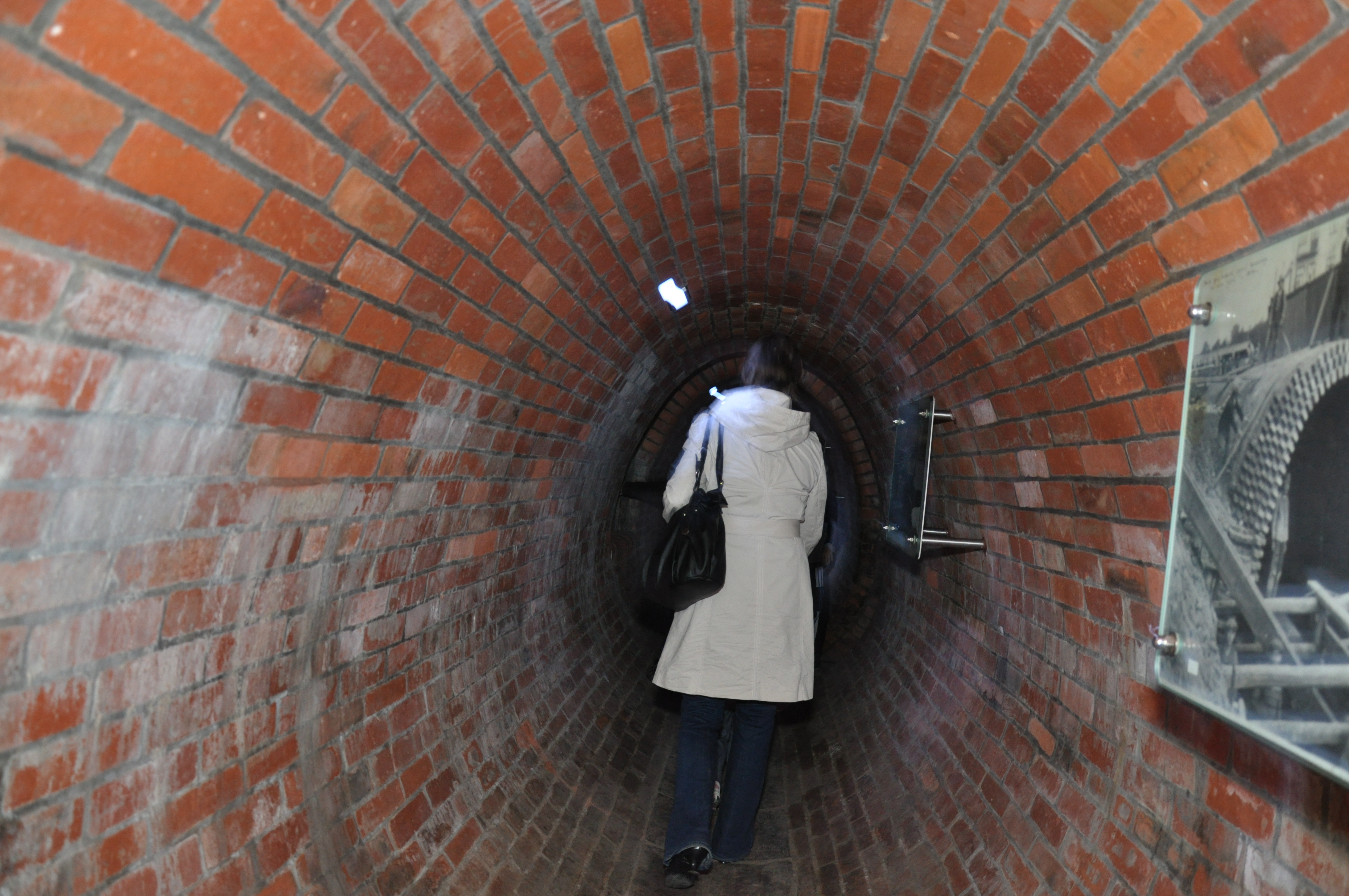 "Kanal Detka" Museum in Łódź